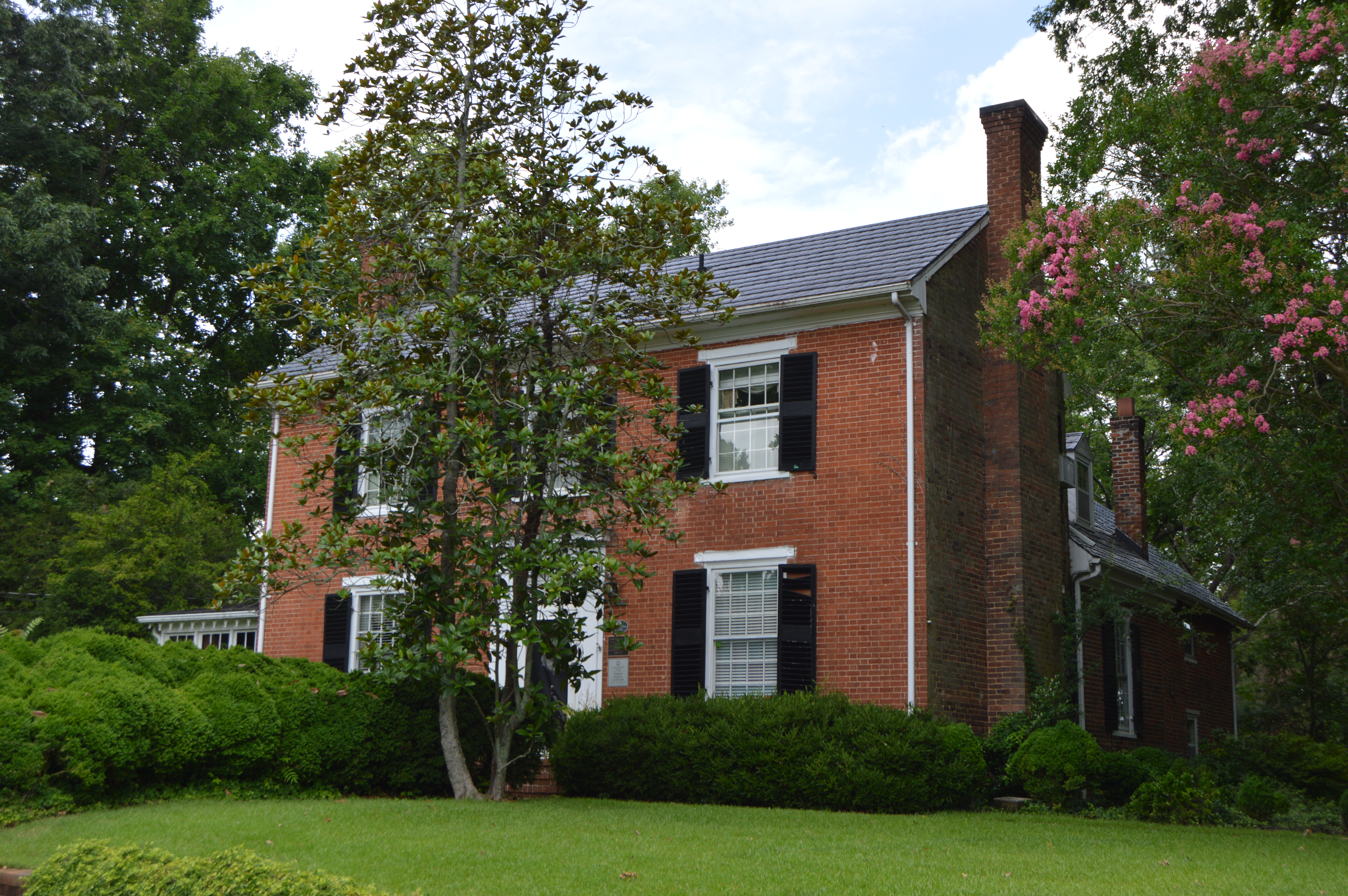 Front and northeastern side of the Clark Royster House, located at 300 Rose Hill Avenue in Clarksville, Virginia, United States. Built in 1840, it is listed on the National Register of Historic Places.